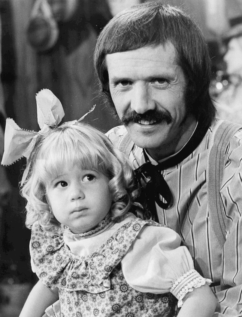 Photo of Chastity Bono with dad, Sonny, on the set of The Sonny and Cher Comedy Hour.